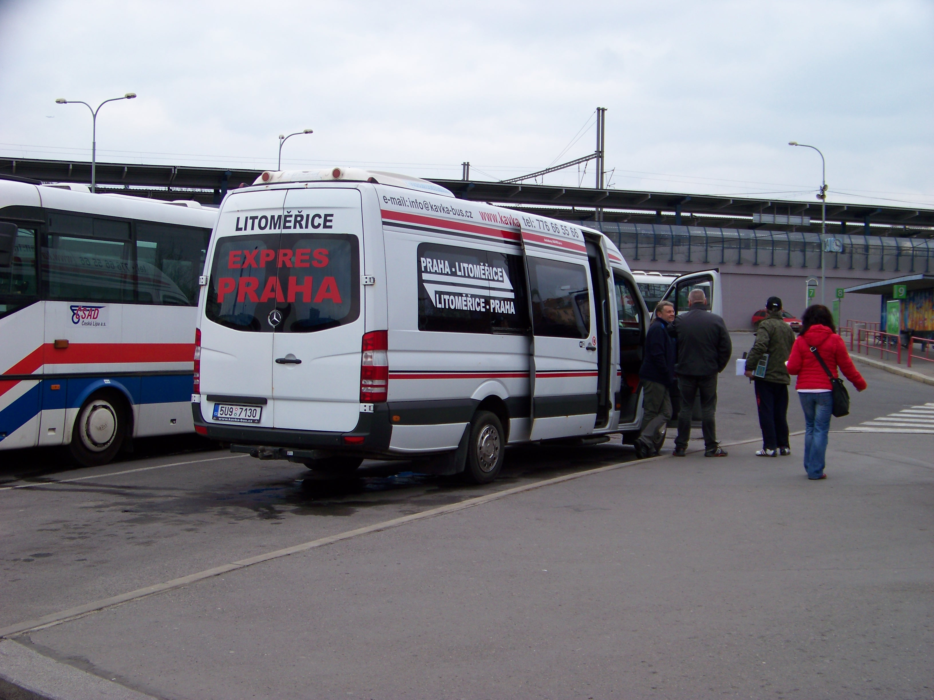 Prague-Holešovice, Czech Republic. Bus station Nádraží Holešovice, a minibus of Autobusy Kavka.